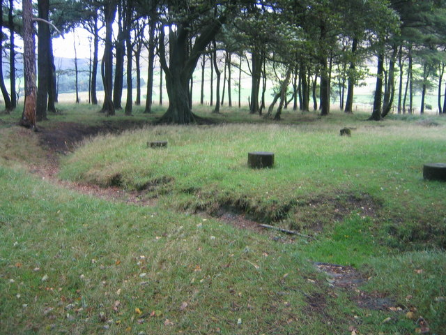 Bleasdale Circle Bronze Age Wooded circle ( now replaced by concrete !)